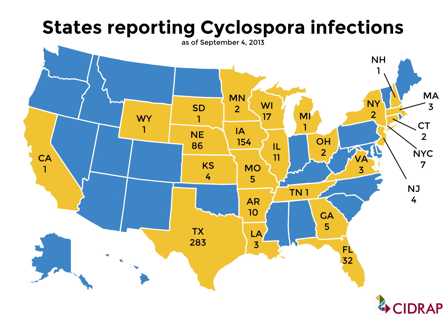 States reporting Cyclospora infections as of August 16, 2013 include: Texas, Iowa, Nebraska, Florida, Wisconsin, Illinois, Arkansas, New York City, Georgia, Kansas, Missouri, Louisiana, Minnesota, New Jersey, New York, Ohio, Virginia, Tennessee California, Connecticut, and New Hampshire